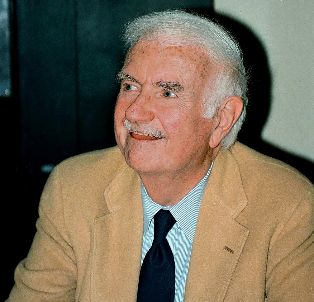 Baltimore M.D. May 11, 1995